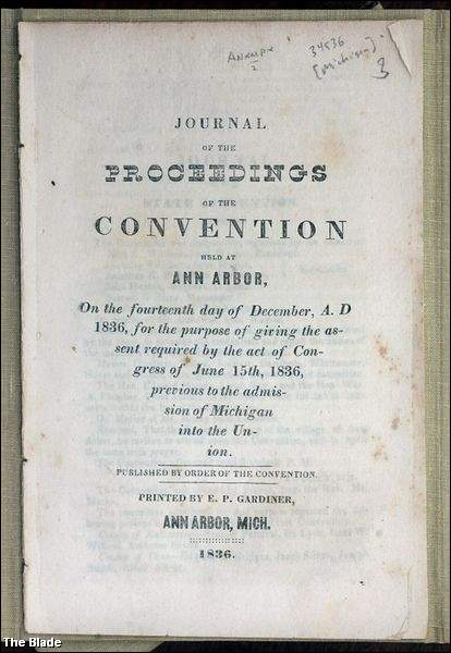 Journal of the 1836 proceedings of the Michigan Territorial Convention, often called the Frost-Bitten Convention, as Michigan was compelled to accept the terms dictated by Ohio in ceding the Toledo strip over which the Toldeo War was fought. Via the The font used for the word ‘proceedings’ is Caslon’s notorious 1821 ‘Italian’ design, or a close copy of it, an attention-grabbing reverse-contrast display font apparently created as a parody of the Didone designs popular at the time.